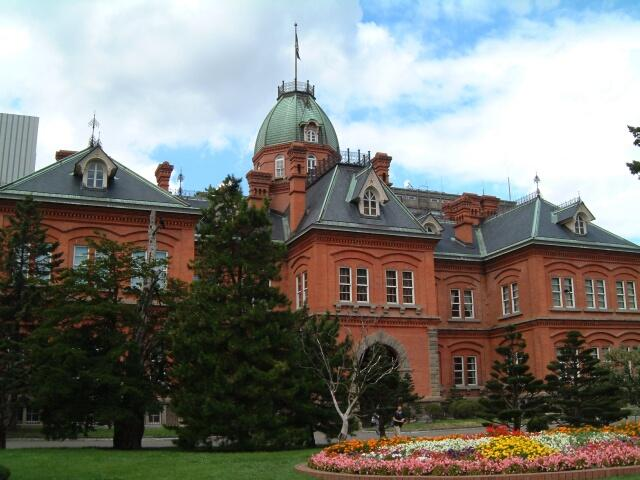 The former Hokkaido government office building